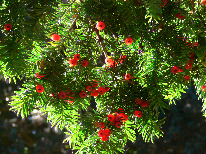 Backlit "berries" (strictly, fleshy arils) of Taxus baccata, (English or common yew) in churchyard at Oakham, Rutland, UK